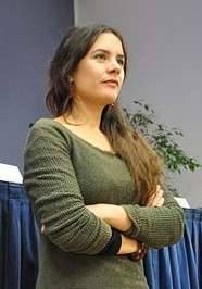 Camila Vallejo just before joining a conference at the Confederation of German Trade Unions in Frankfurt.